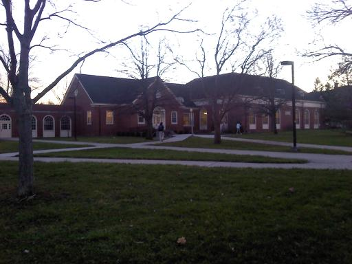 This is a picture of Harris Dining Hall at Miami University in Oxford, Ohio.